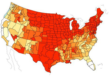 Annual temperature departures for the years 2006. 2006 was one of the warmer years on record since 1895.The Climate Attribution Team explained what was the effect of the El Nino cycle vs. greenhouse gases on these conditions.